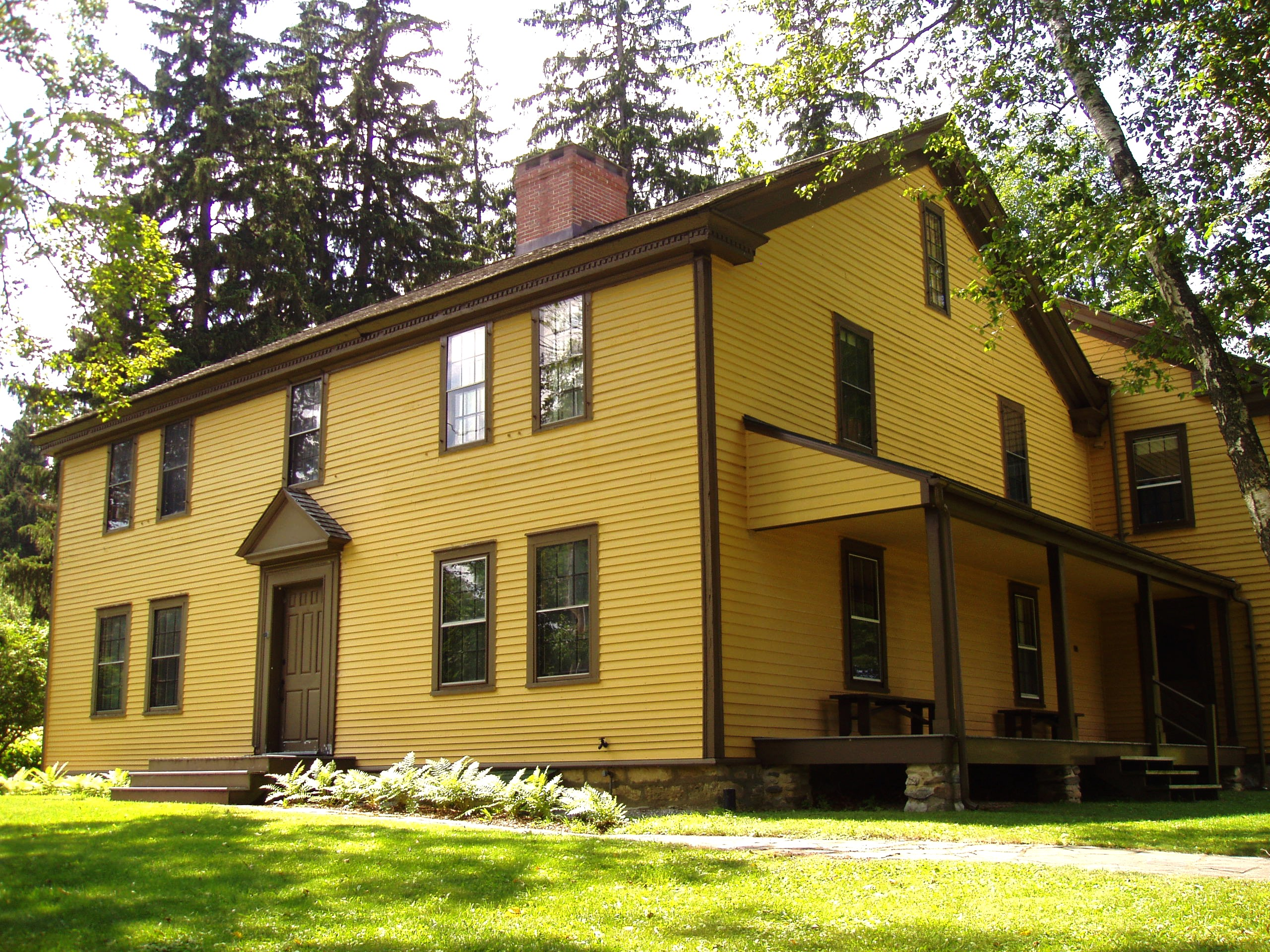 Arrowhead (home of Herman Melville), Pittsfield, Massachusetts, USA. View from northeast, showing front facade and the north-facing “piazza” (porch).